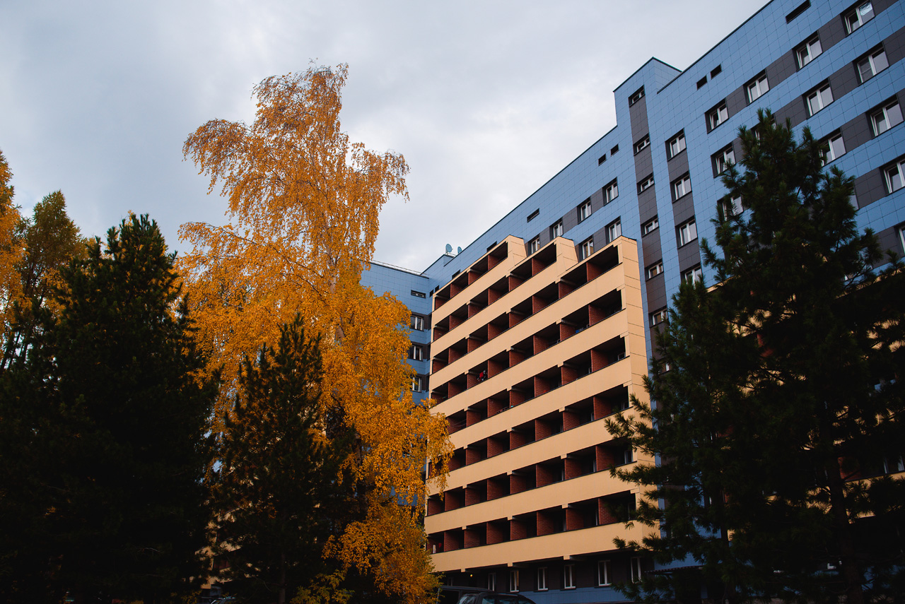 Новые общежития НГУ